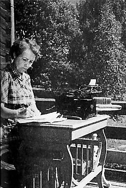 Finnish scholar Elsa Enäjärvi-Haavio.